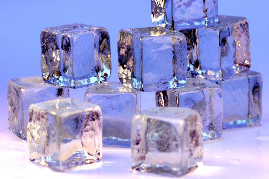 Ice cubes